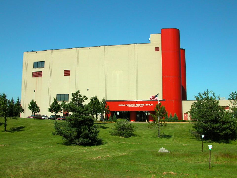 UMD-NRRI Photo